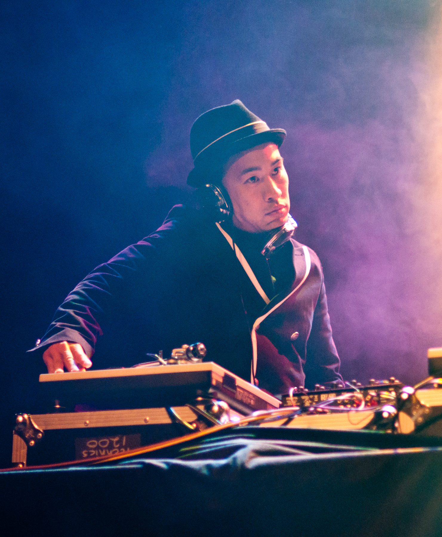 Far*East Movement performing at Rockin' Roosevelt at the University of California - San Diego